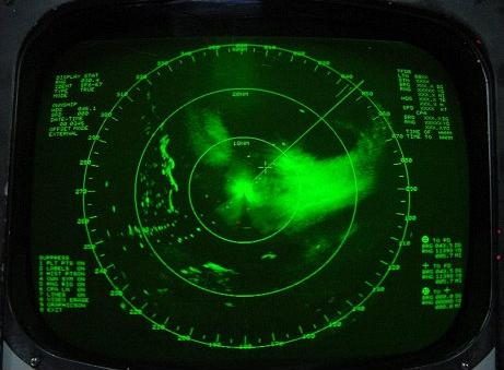 Radar image of Typhoon Vamei on 27 December 2001 from the USS Carl Vinson